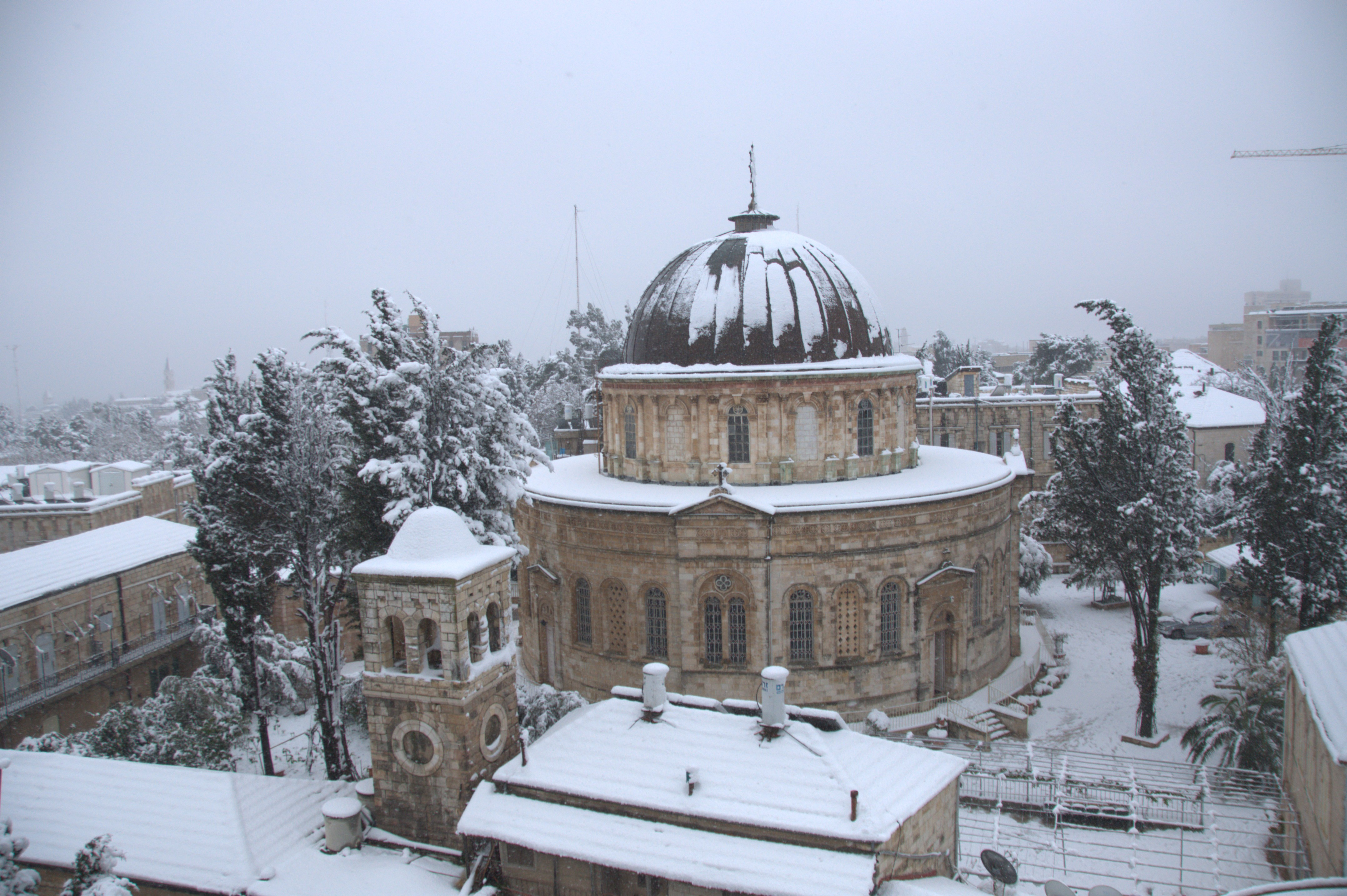 Ethiopian Abyssinian Church, Jerusalem